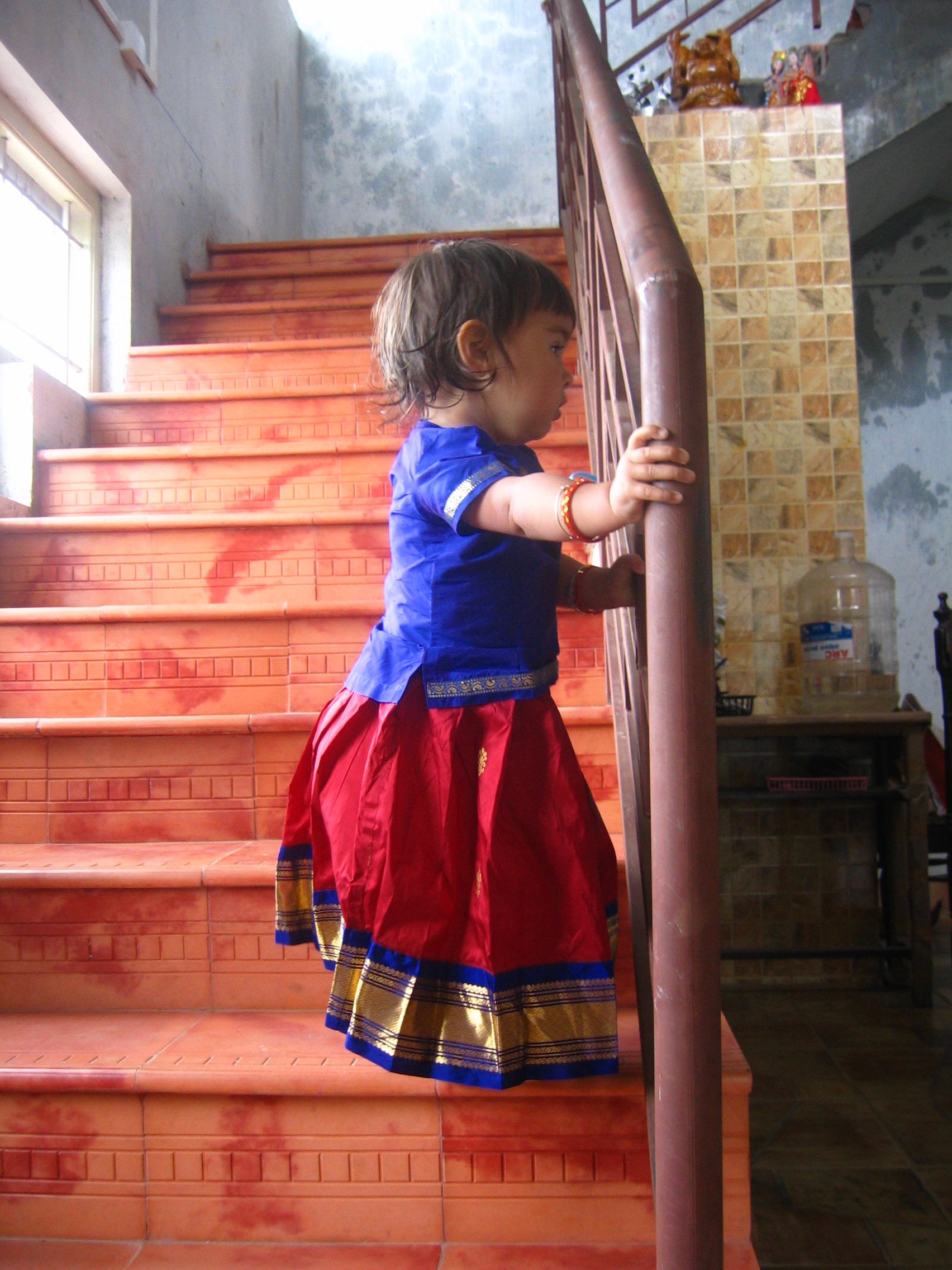 Small Girl wearing Pattu Pavadai